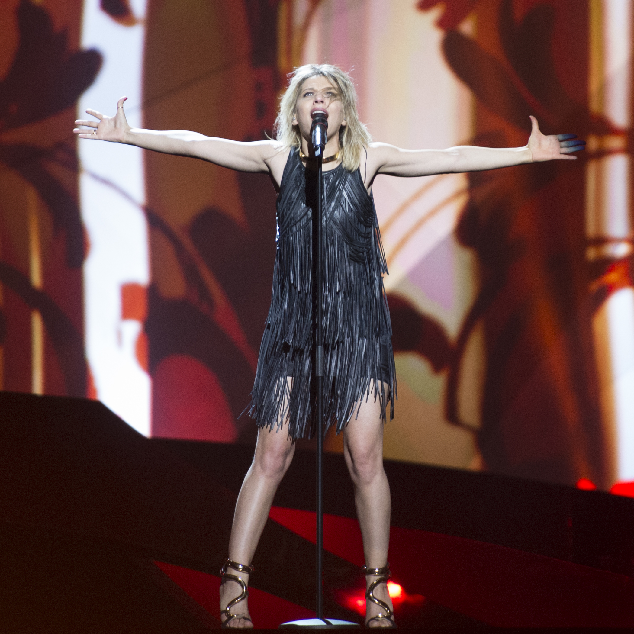 Amandine Bourgeois representing France with the song "L'enfer et moi" during the first dress rehearsal for "the Big Five" in the Eurovision Song Contest 2013 in Malmö. (Help translate this text)